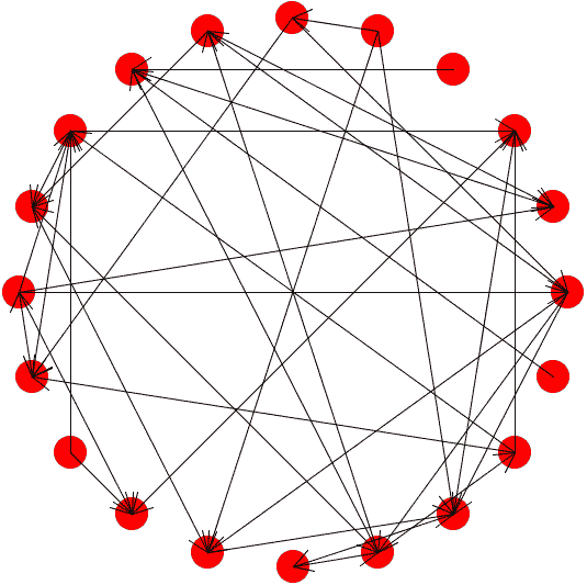 Directed Random graph, 20 nodes, probability p = 0.1, instance 1.